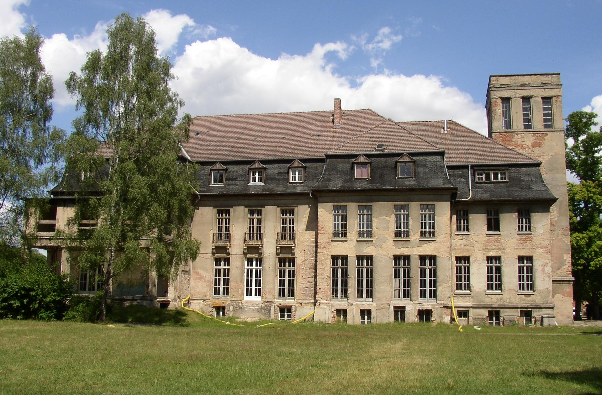 Palace in Bernau-Börnicke in Brandenburg, Germany